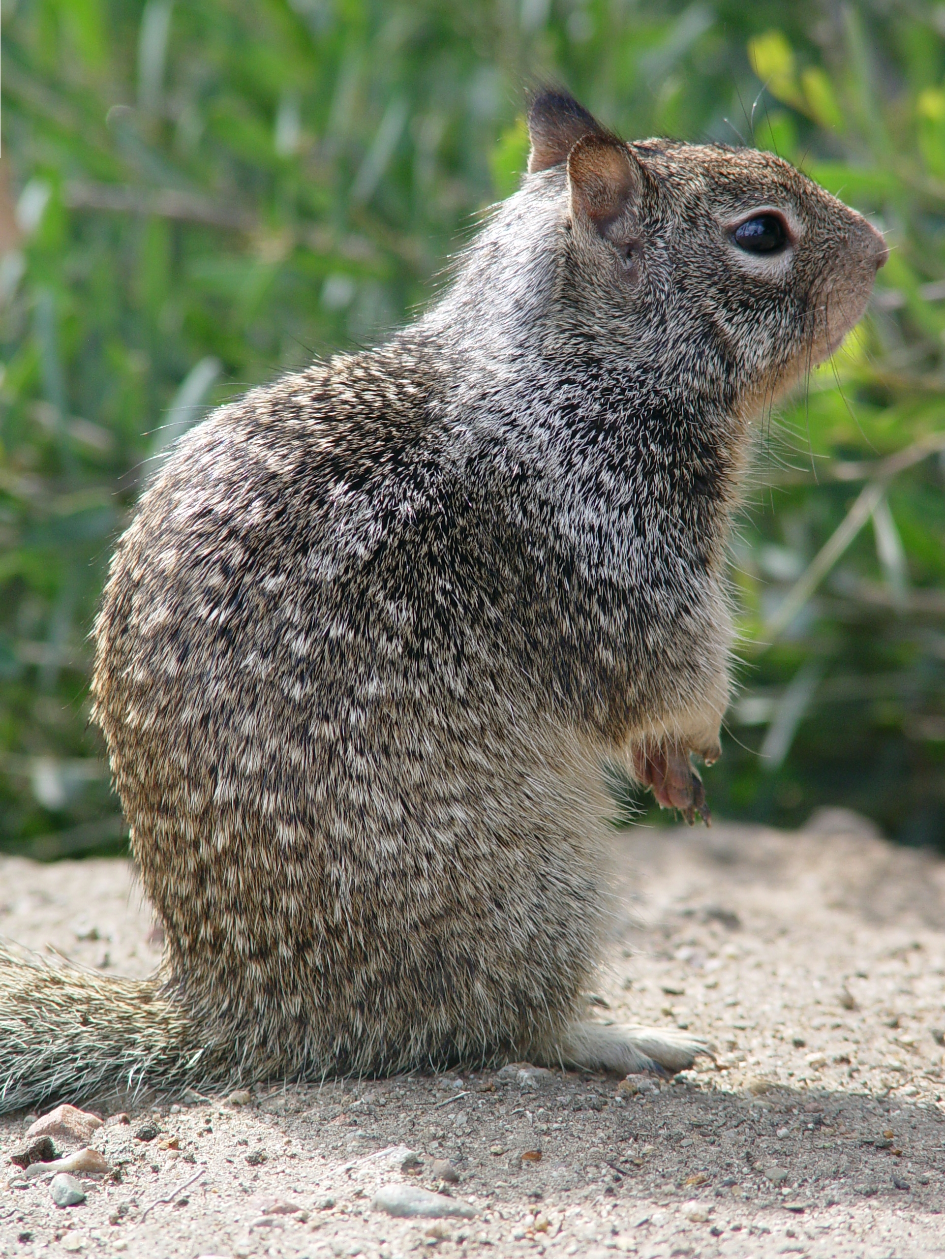 California Ground Squirrel (Spermophilus beecheyi). Taken in Thousand Oaks, California.